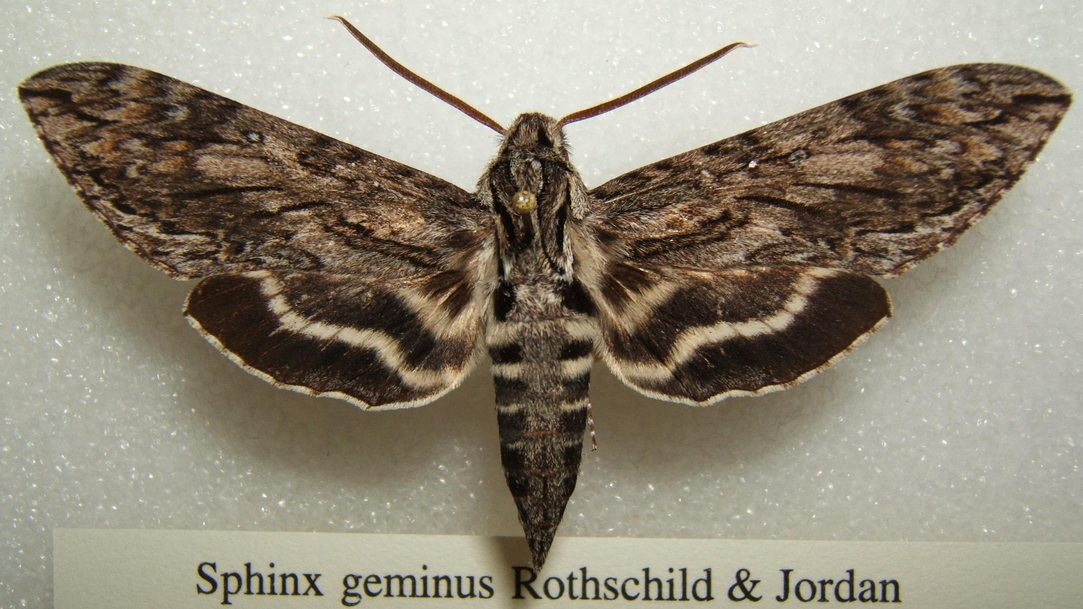 Sphinx geminus adult taken by Shawn Hanrahan at the Texas A&M University Insect Collection in College Station, Texas.